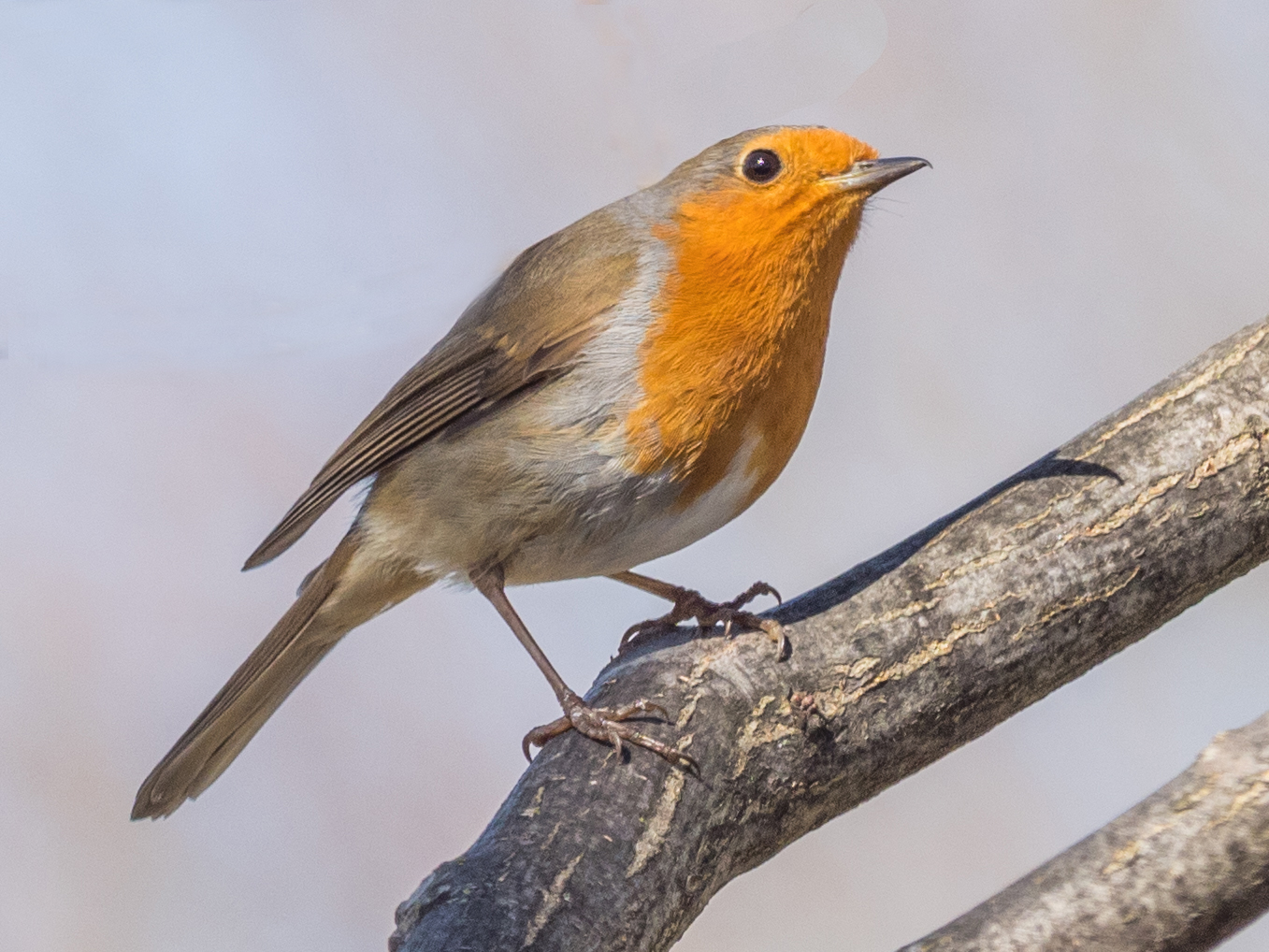 Vaxholm, Sweden, April 2018